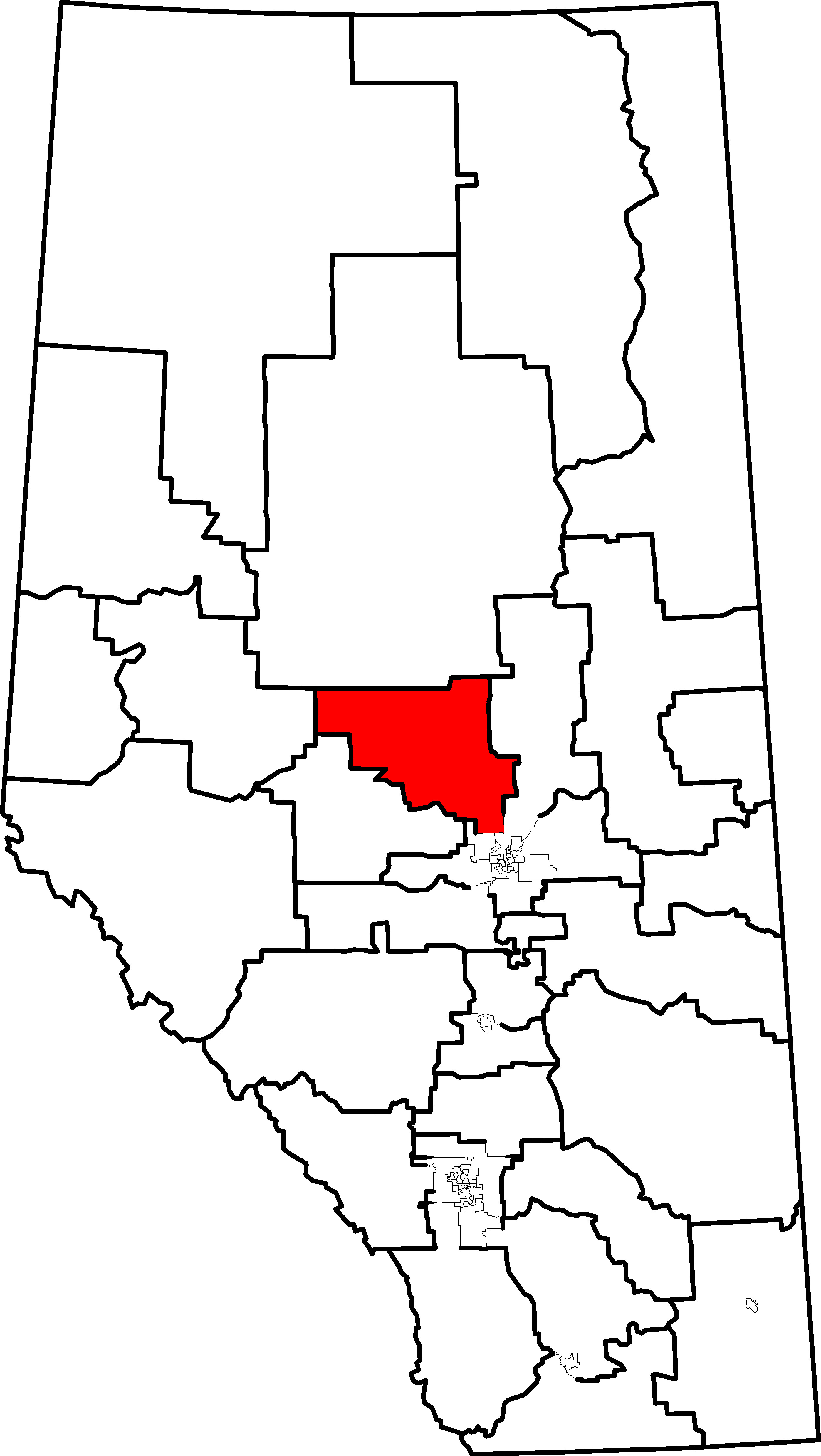 A map of the Alberta provincial electoral districts, effective 2010. Barrhead-Morinville-Westlock is highlighted in red.